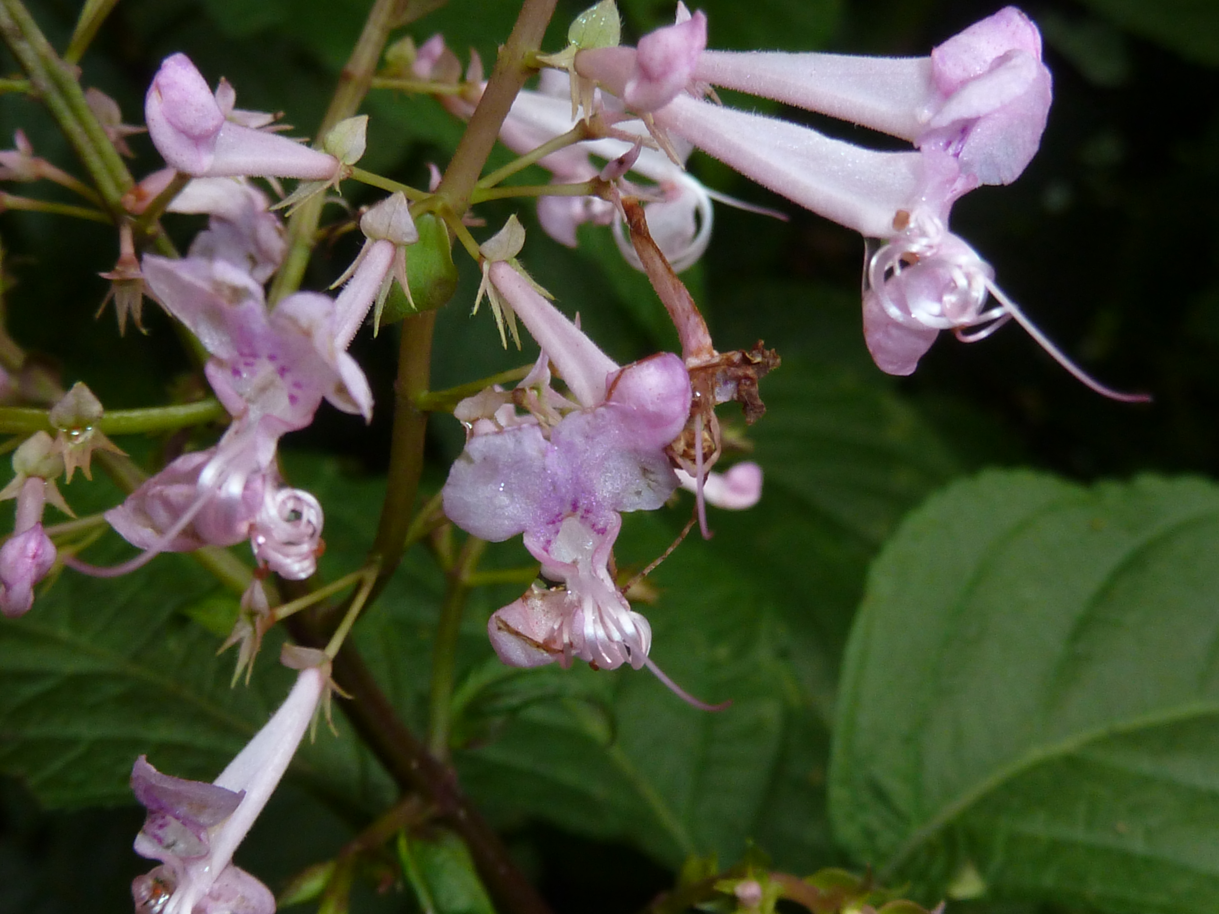 Pink cultivar of the Spurflower in the Manie van der Schijff Botanical Garden, Pretoria